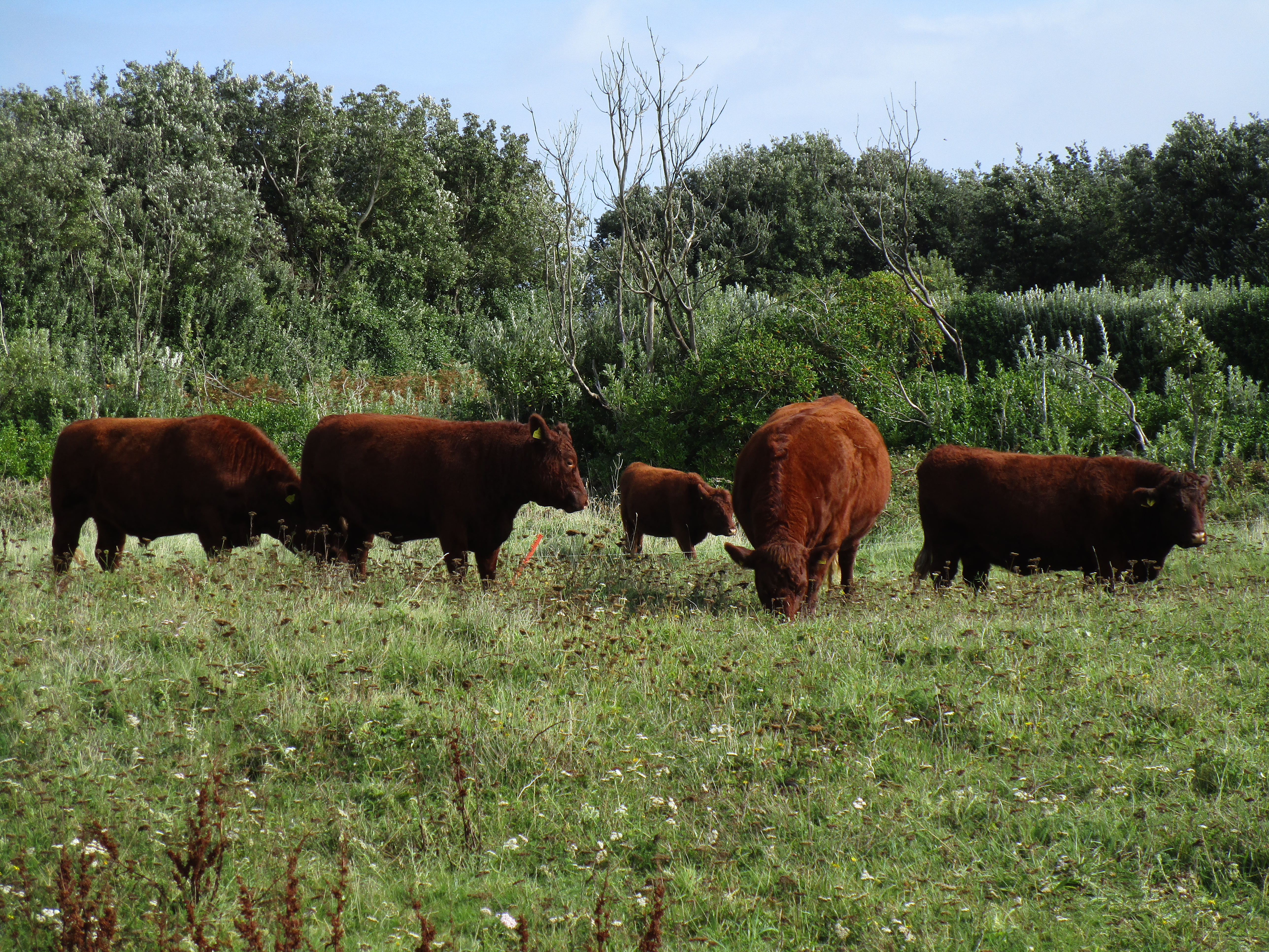 Ruby Red Devon cattle used for conservation grazing, photographed on Rushy Bay Green, Bryher. The cattle are from Hillside Farm, and are grazed on the land they tenant, and land tenanted by the Isles of Scilly Wildlife Trust.